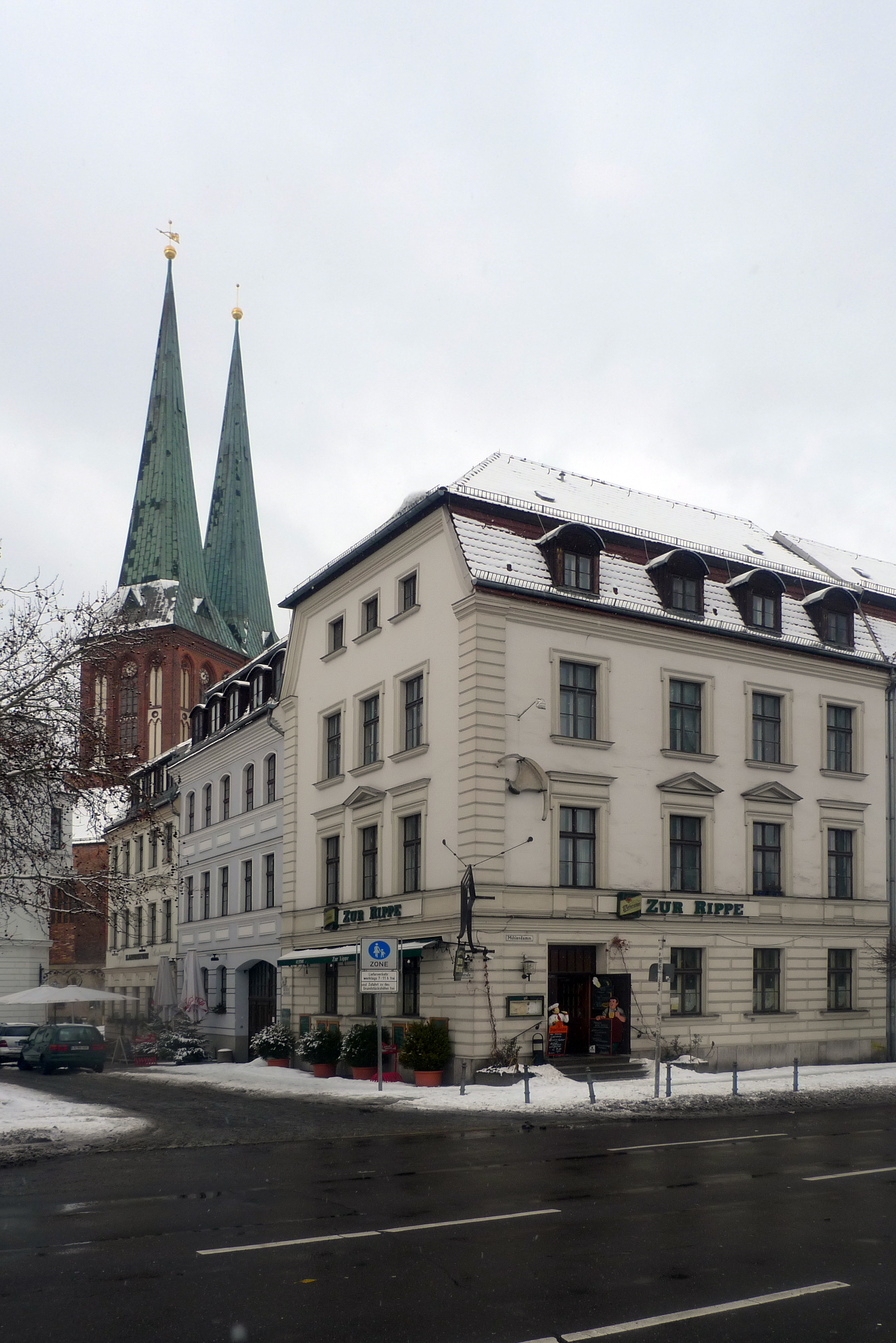 Zur Rippe